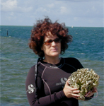 Mary Hagedorn is a physiologist and marine biologist, known for her developments in coral reef conservation.